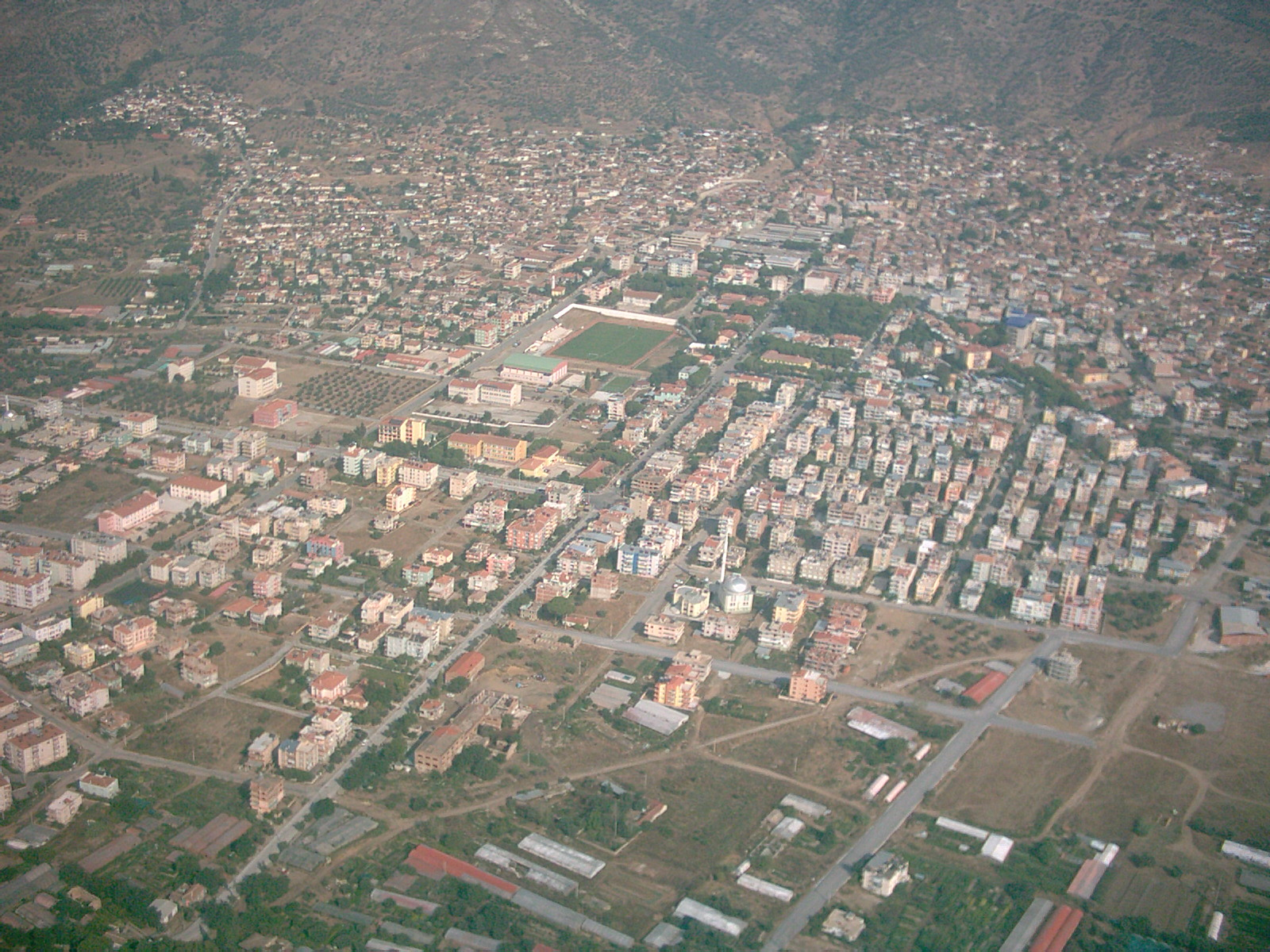 Aerial view of Bayındır, Izmir.